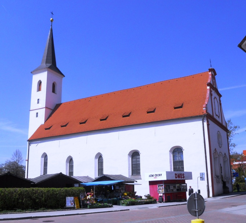 Strakonice St-Margaret church from SE